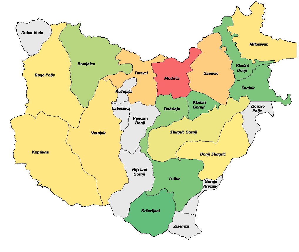 Modriča